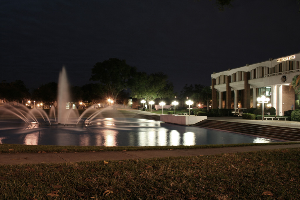 ucf reflection pond and millican hall (University of Central Florida)